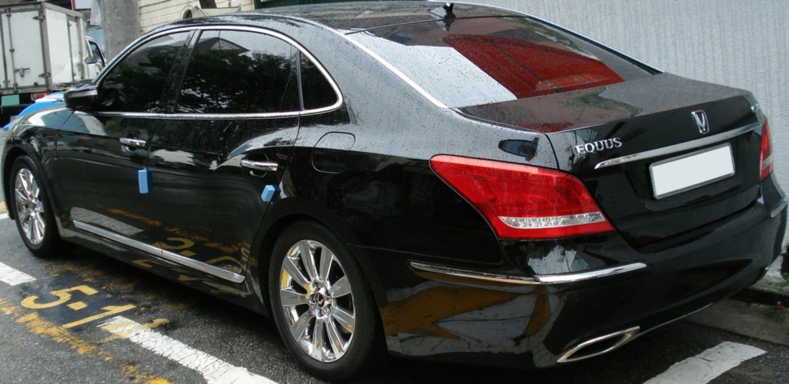 Hyundai Equus